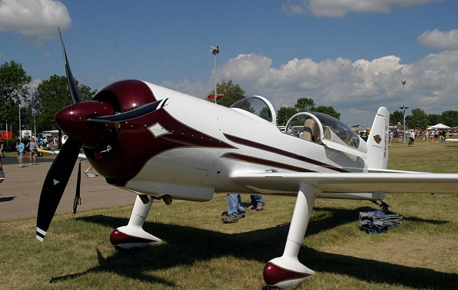 EAA AirVenture, 2005